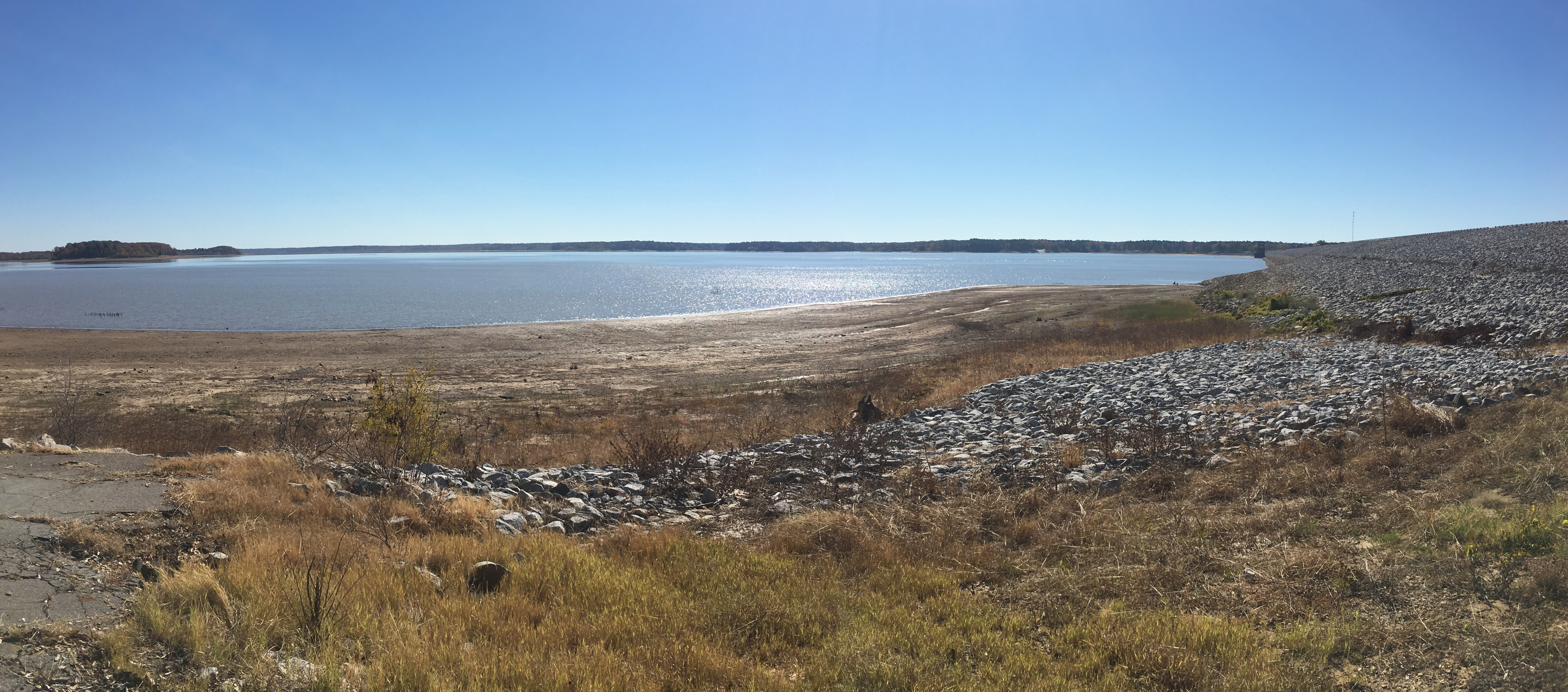 Arkabutla Lake from the northern side of the dam in November 2016